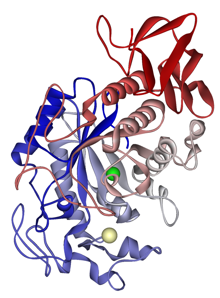 Ribbon diagram of human salivary alpha-amylase.Created using Accelrys DS Visualizer Pro 1.6 and GIMP. Legend Chloride ion Calcium ion